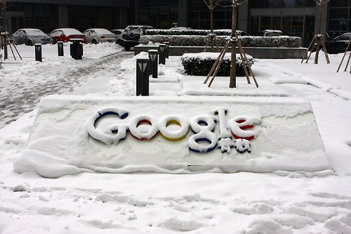 Google China n Beijing, photo by Fan Yang